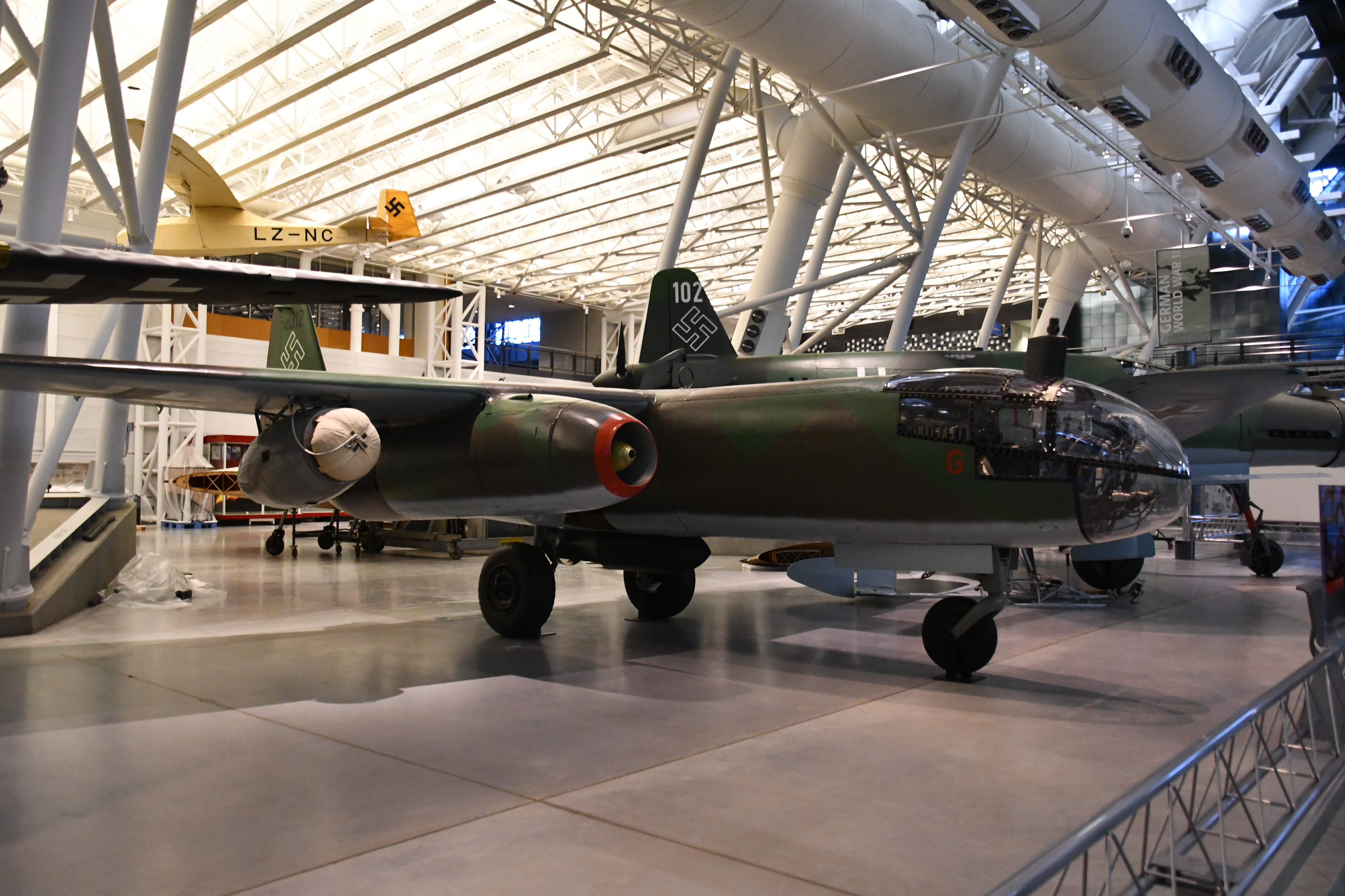 Arado 234 B at the Steven F. Udvar-Hazy Center (Chantilly, VA)